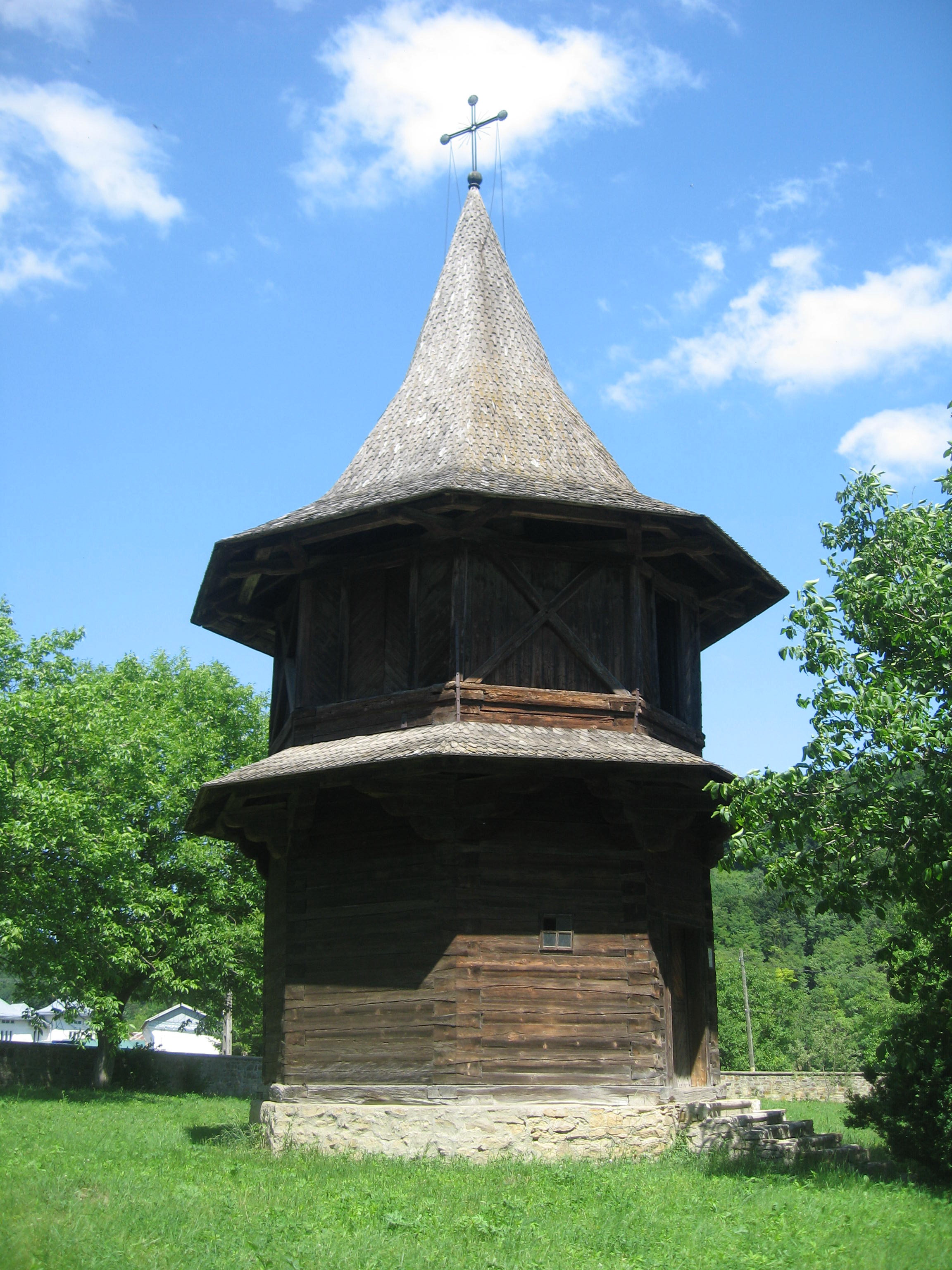 The Church of Pătrăuţi, Romania, UNESCO monument 02